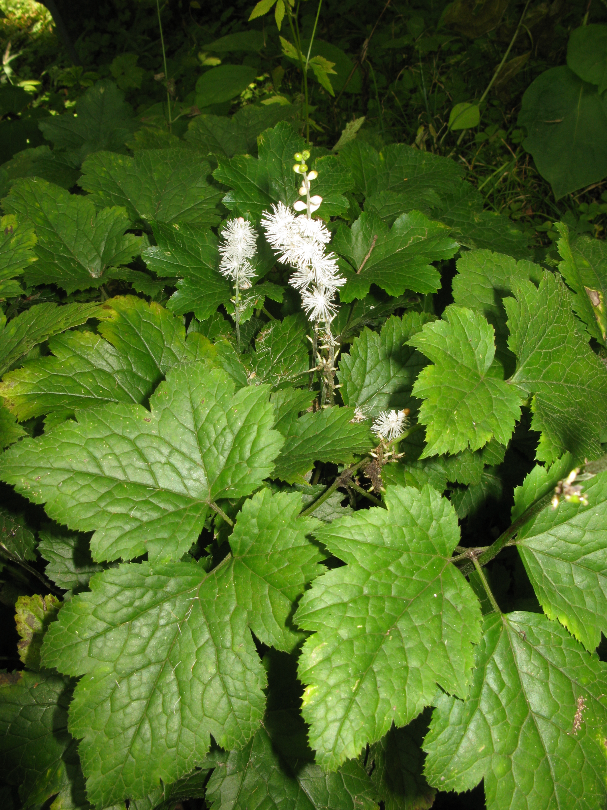 Cimicifuga biternata, Botanical Gardens, Nikko, Graduate School of Science, The University of Tokyo, Tochigi pref., Japan